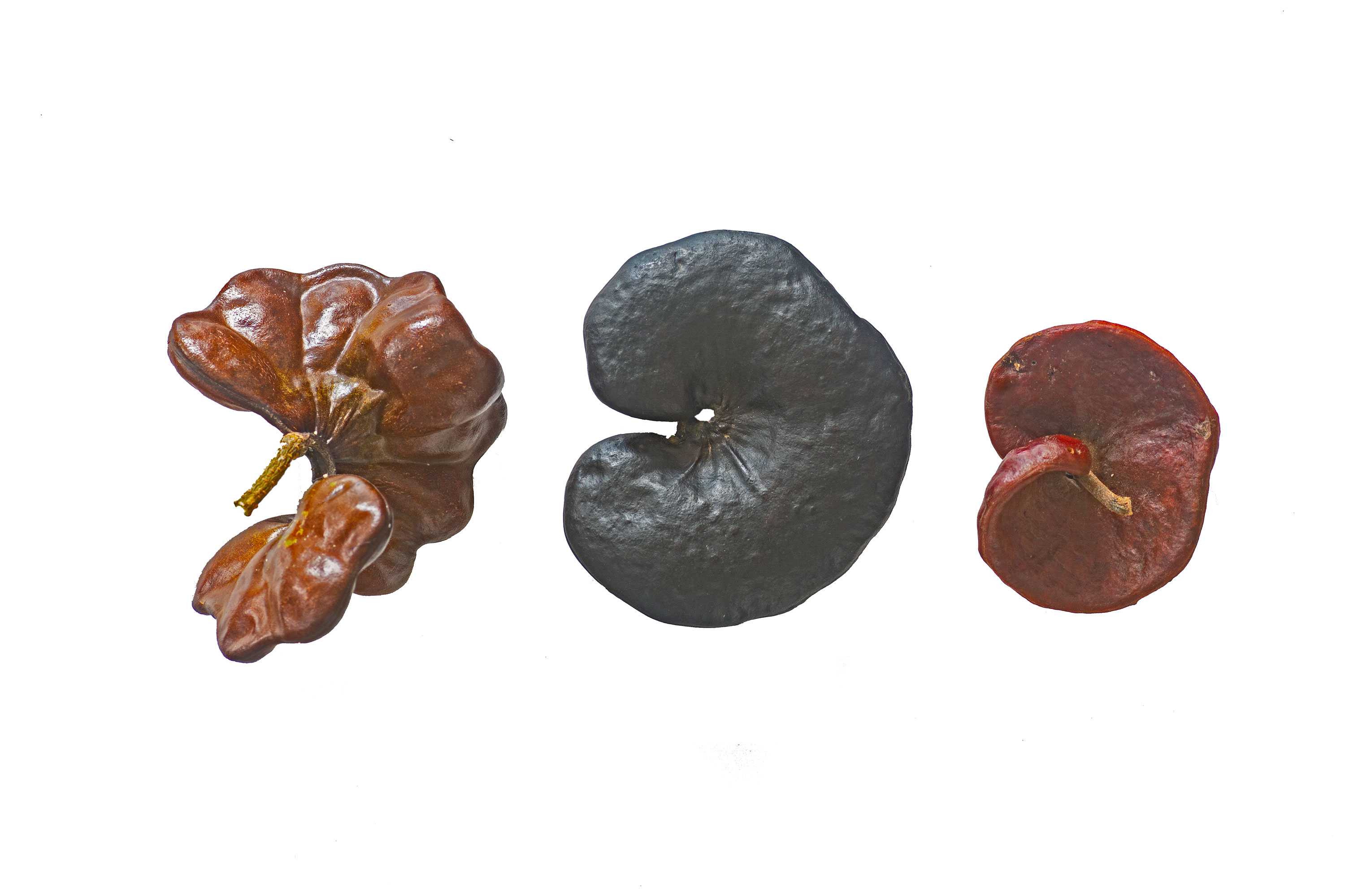 Ripe fruits of three sympatric species of the legume tree genus Enterolobium. From left to right, Enterolobium cyclocarpum, Enterolobium barinense and Enterolobium schomburgkii, all from Colombia